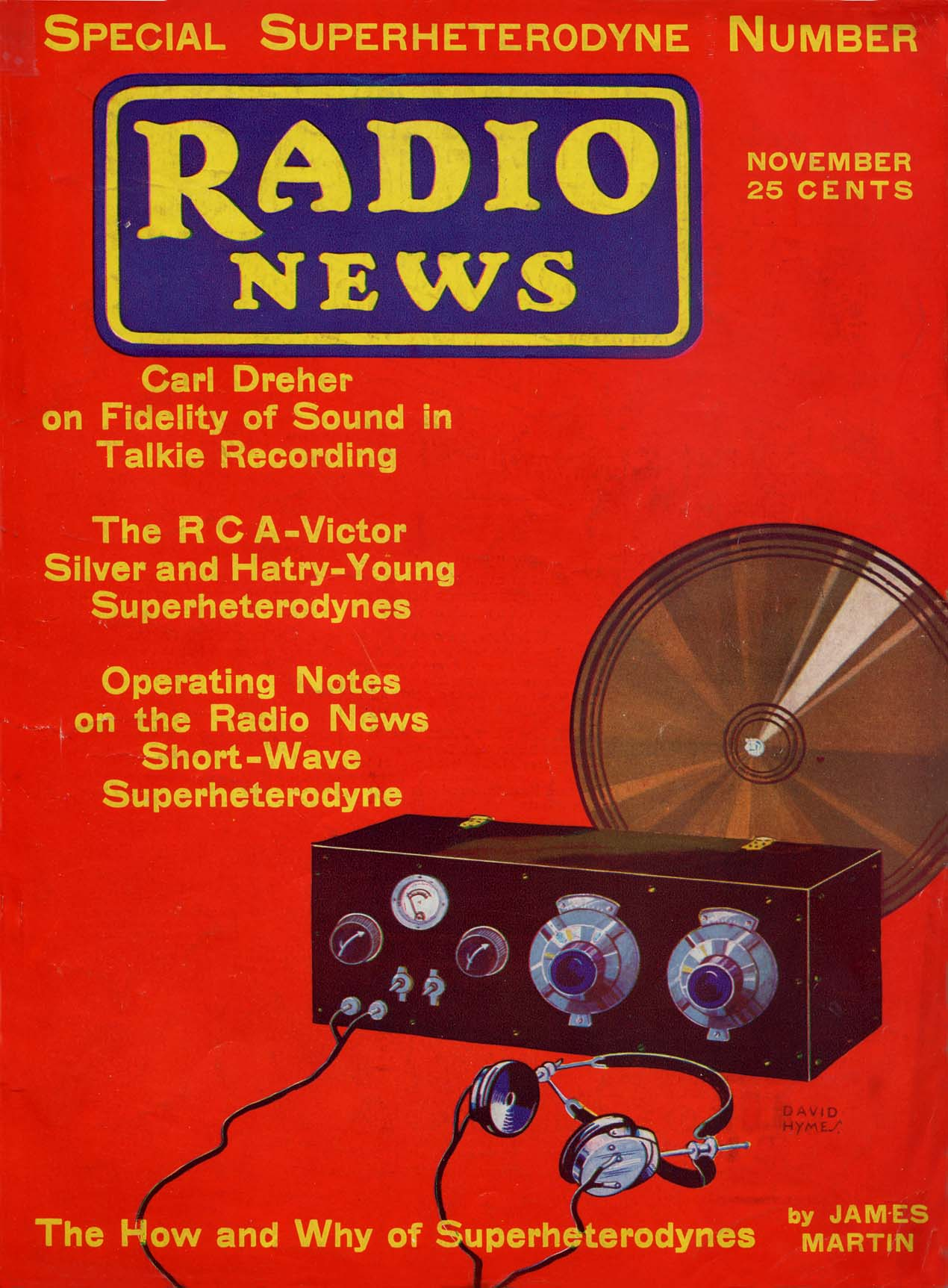 Radio News, November 1930, Volume 12, Number 5. Radio-Science Publications Inc. Publishers: B. A. MacKinnon and H. K. Fly. Editor: Arthur H. Lynch. Cover art by David Hymes. This 8.5 by 11.5 inch (21.6 by 29.2 cm) magazine has 96 pages. The magazine page numbers were on a volume bases. This issue has pages 385 to 480. Radio News was founded by Hugo Gernsback in 1919 and sold to B. A. MacKinnon in an April 1929 bankruptcy auction. The magazine was acquired by Ziff-Davis in 1938. The title was changed to Radio & Television News in 1948 and then to Electronics World in 1959. It was merged into Popular Electronics in January 1972.